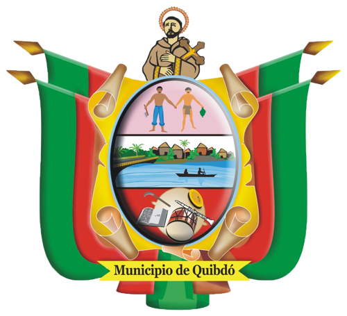 Seal of Quibdo